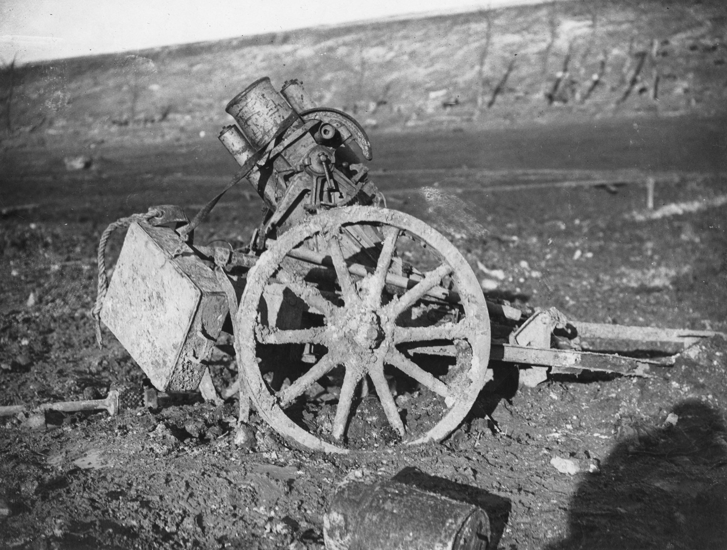 Captured German 17 cm mittlerer Minenwerfer a/A at Beaucourt- sur- Ancre.